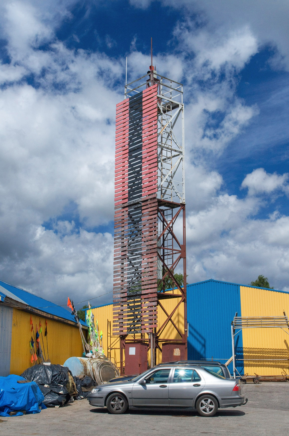 Silla front light beacon